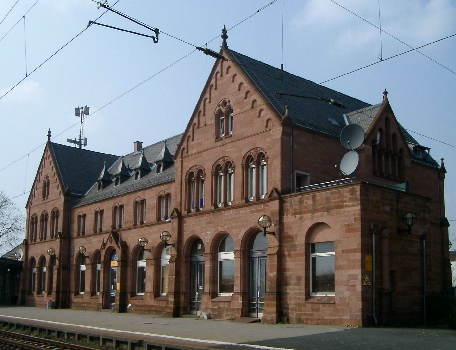 Railway Station in Gelnhausen (Germany), exterior view south facade (track side)